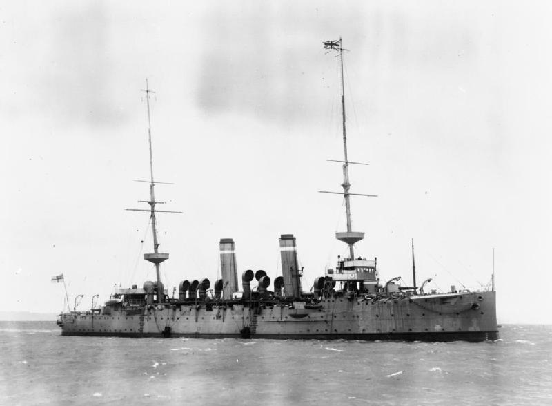 Photograph of British Eclipse class protected cruiser HMS Eclipse.